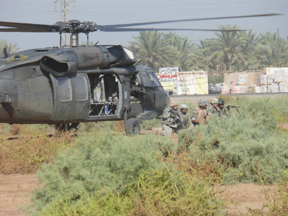 BAGHDAD-American troops with 1st Squadron, 7th Cavalry Regiment, 1st Brigade Combat Team, 1st Cavalry Division, and policemen from the 1st Battalion, 2nd Brigade, 1st Federal Police Division, position themselves to provide security after dismounting from a UH-60 Blackhawk helicopter. The combined force conducted three air insertions, all in clear view of the busy highway. The mission aimed to deter insurgents by showing them how quickly and unexpectedly the combined force can arrive.